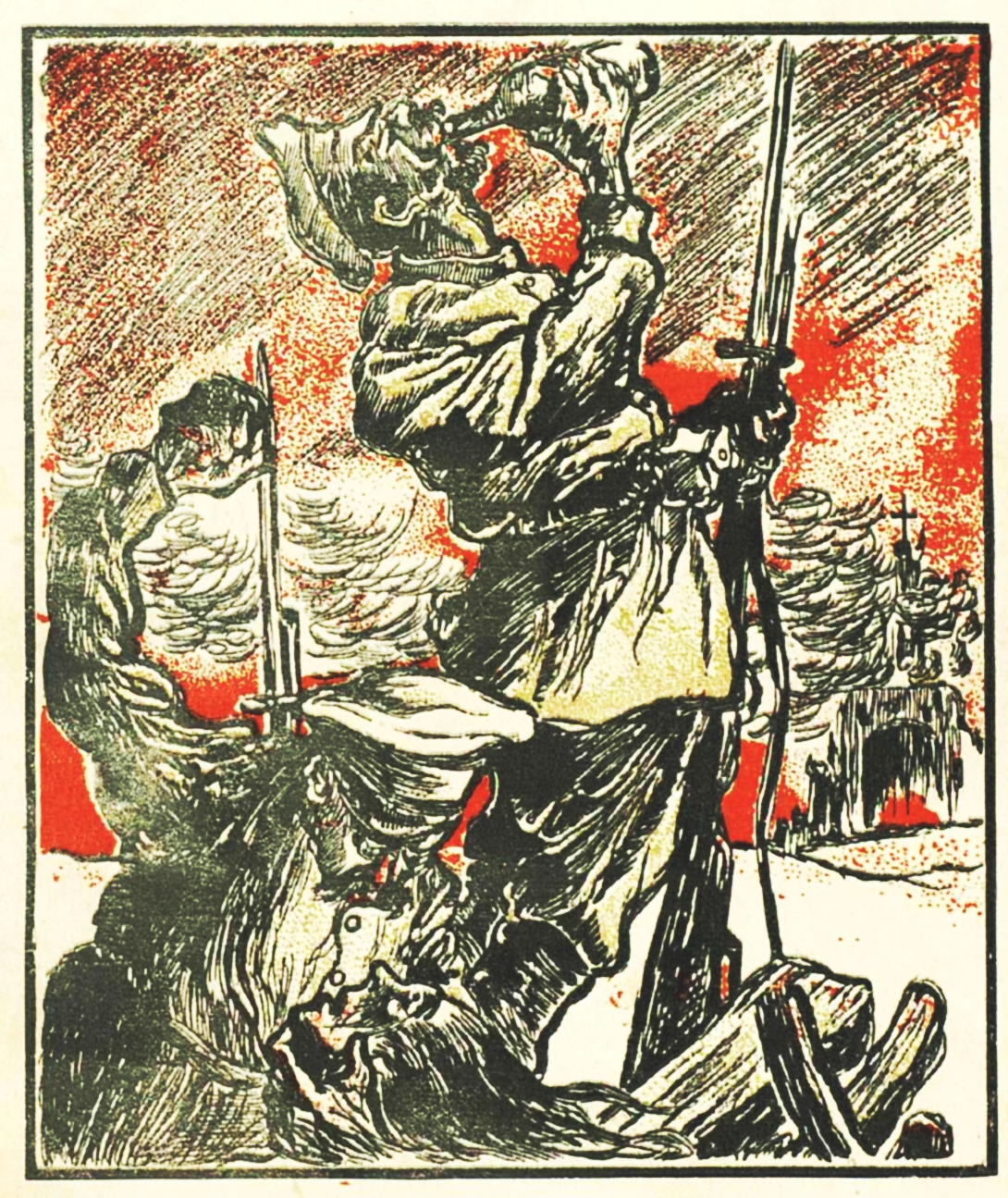 Pacostea Rusească ("The Russian Bane"), Romanian allegations of war crimes against the Russian (allied) troops stationed in Moldavia during World War I and the February Revolution.